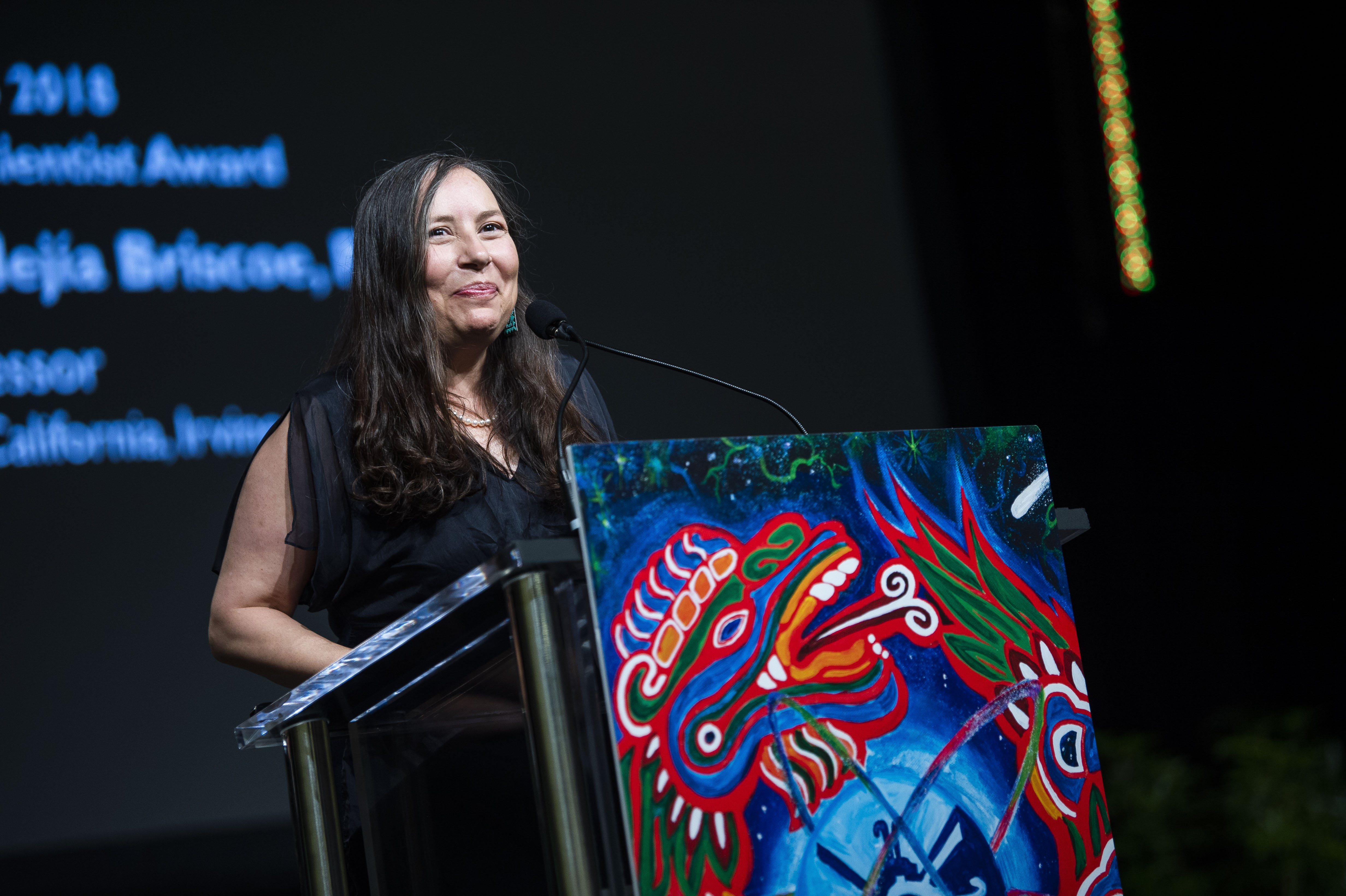 Dr. Adriana Briscoe was awarded the SACNAS Distinguished Scientist award at the 2018 National Diversity in STEM Conference in San Antonio, Texas. Dr. Briscoe is also a Fellow at the American Association for the Advancement of Science.